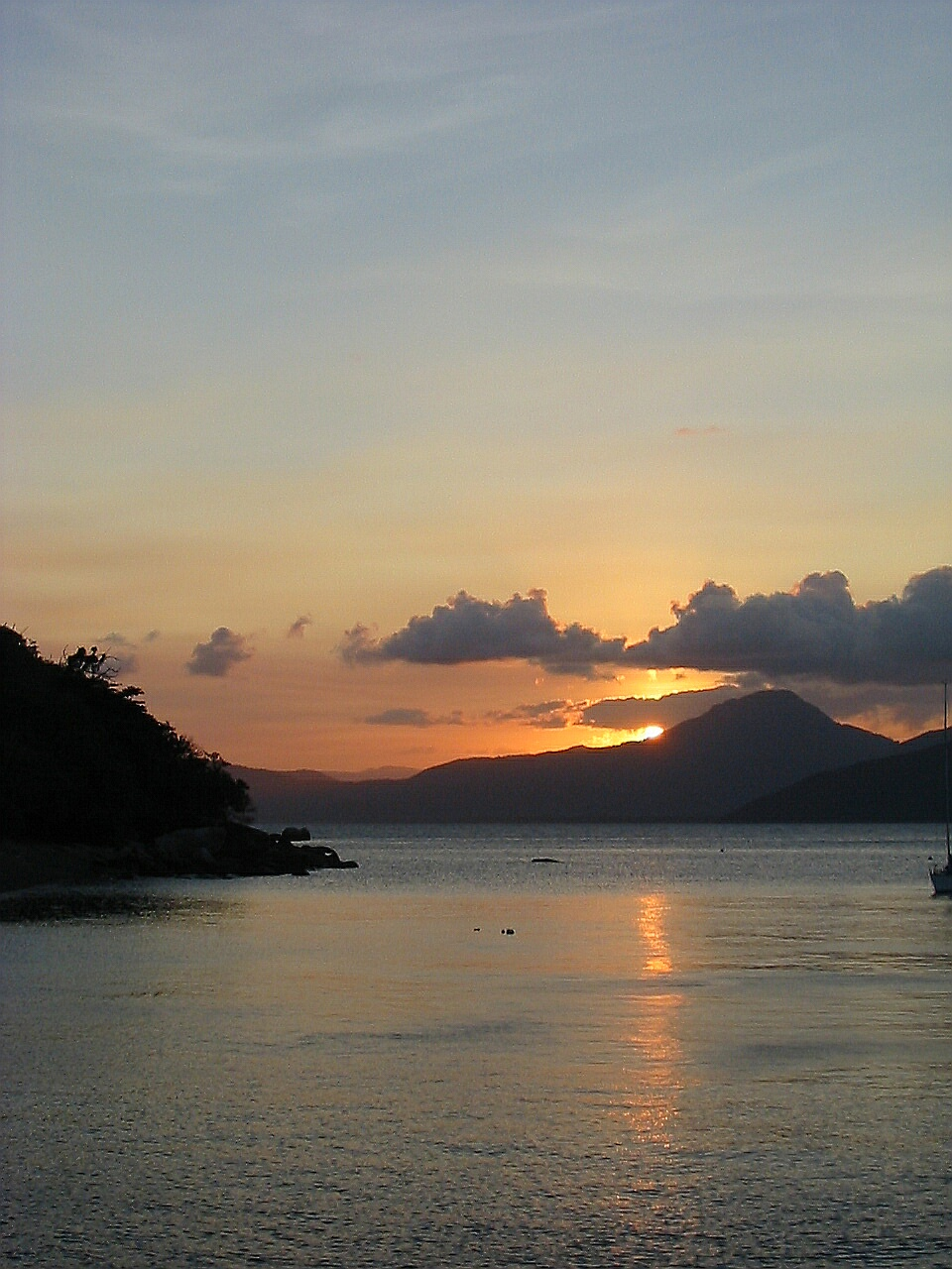 Sunset